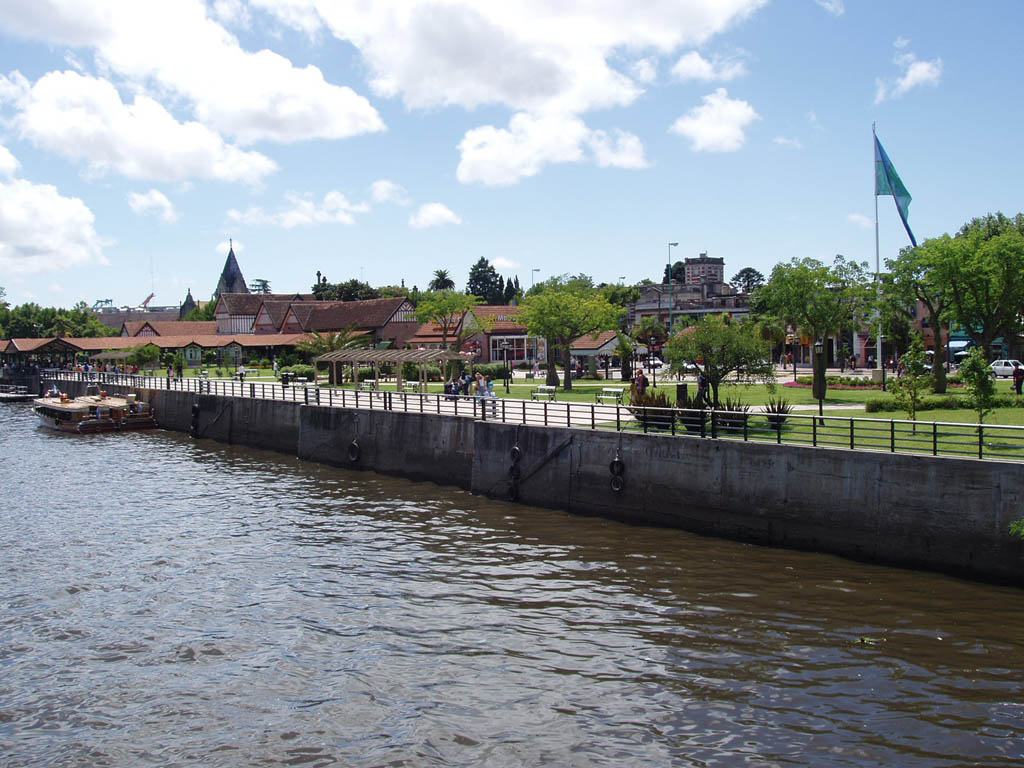 El Tigre, Buenos Aires Province, Argentina. View of the River and main passanger docks.